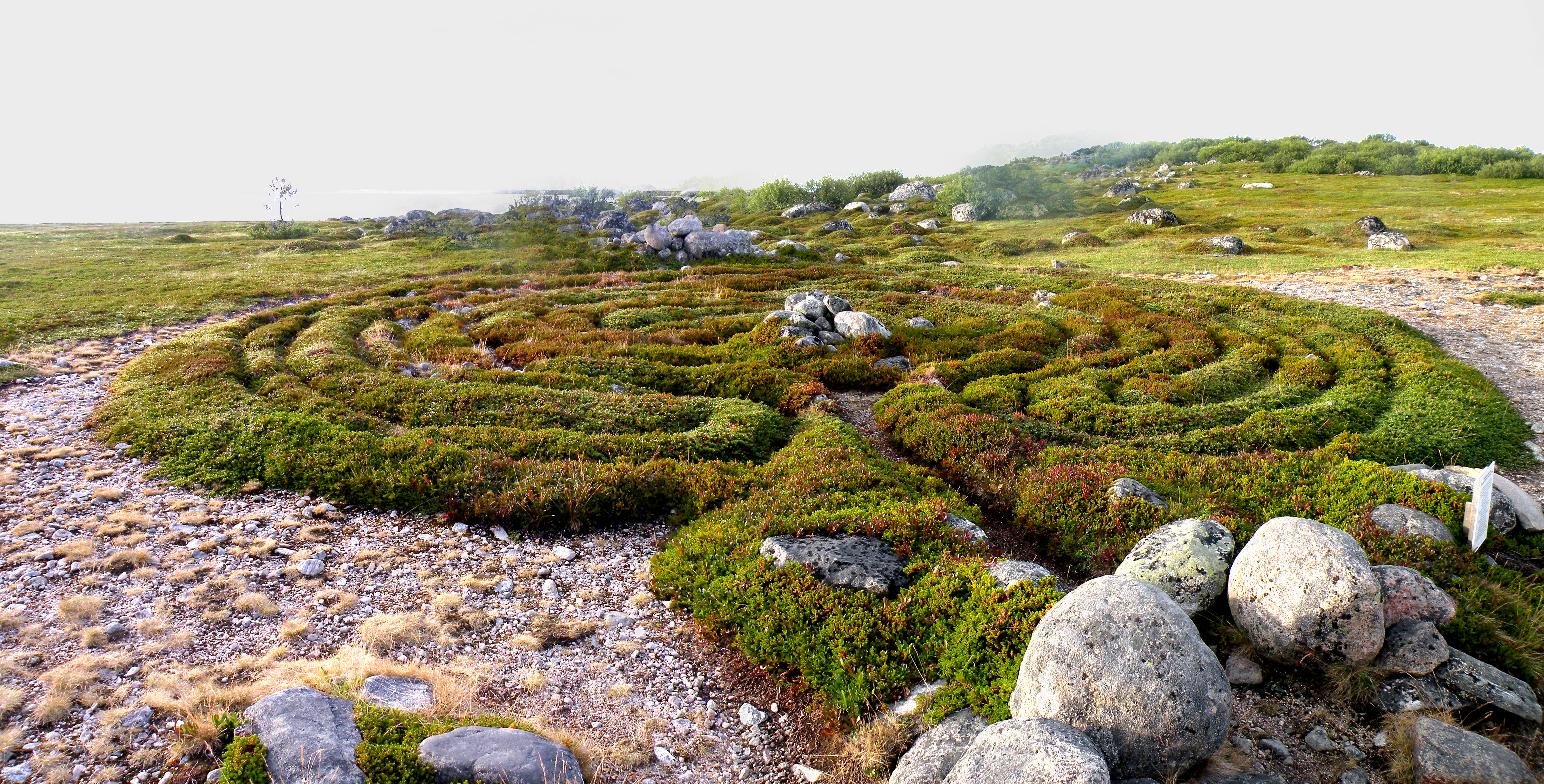 Solovetsky Islands.Bolshoi Zayatsky Island.Stone Labyrinth